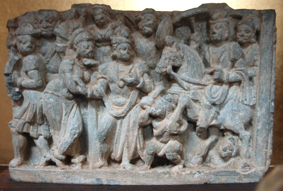 The Great Departure. Gandhara, 2-3rd century. ZenYouMitsu Temple （善養密寺）, Tokyo. Personal photograph, 2005. Released in the Public Domain.